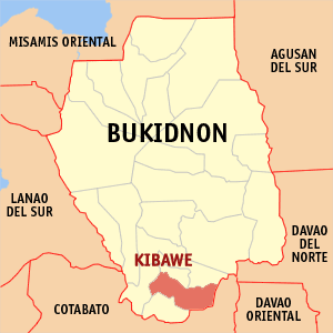 Map of the Bukidnon showing the location of Kibawe